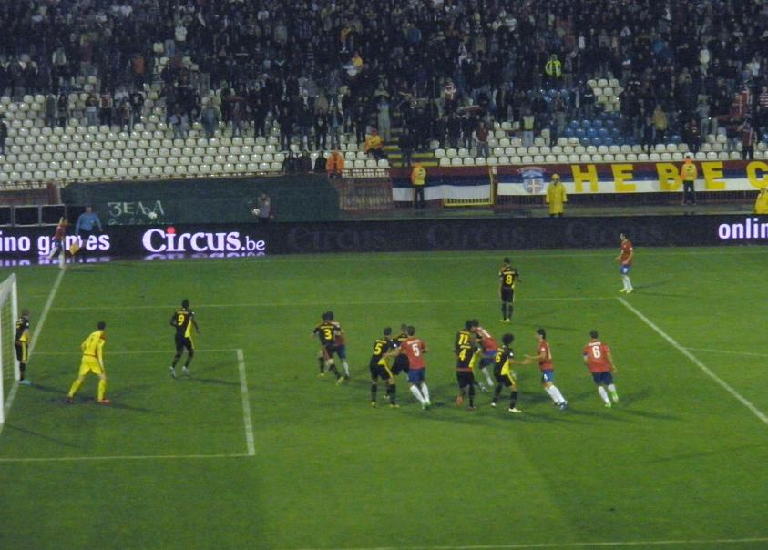 Serbia vs. Belgium at Marakana, 12 October 2012